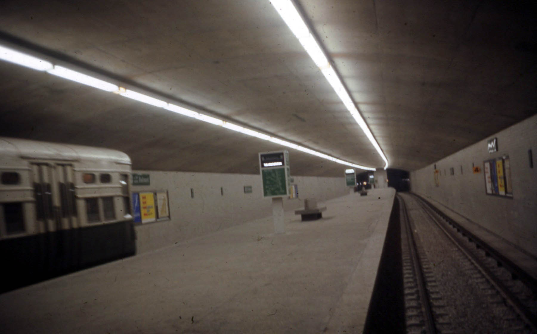 19700240 02 CTA Kennedy L @ Belmont Ave